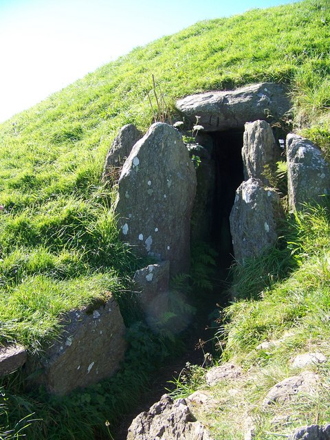 Passage entrance to Bryn Celli Ddu No bones or other artefacts were found during the excavations but there is a rough spiral inscription on the first stone on the left as you enter the chamber, and a stone with zig zag inscriptions standing alone on the outside of the chamber.